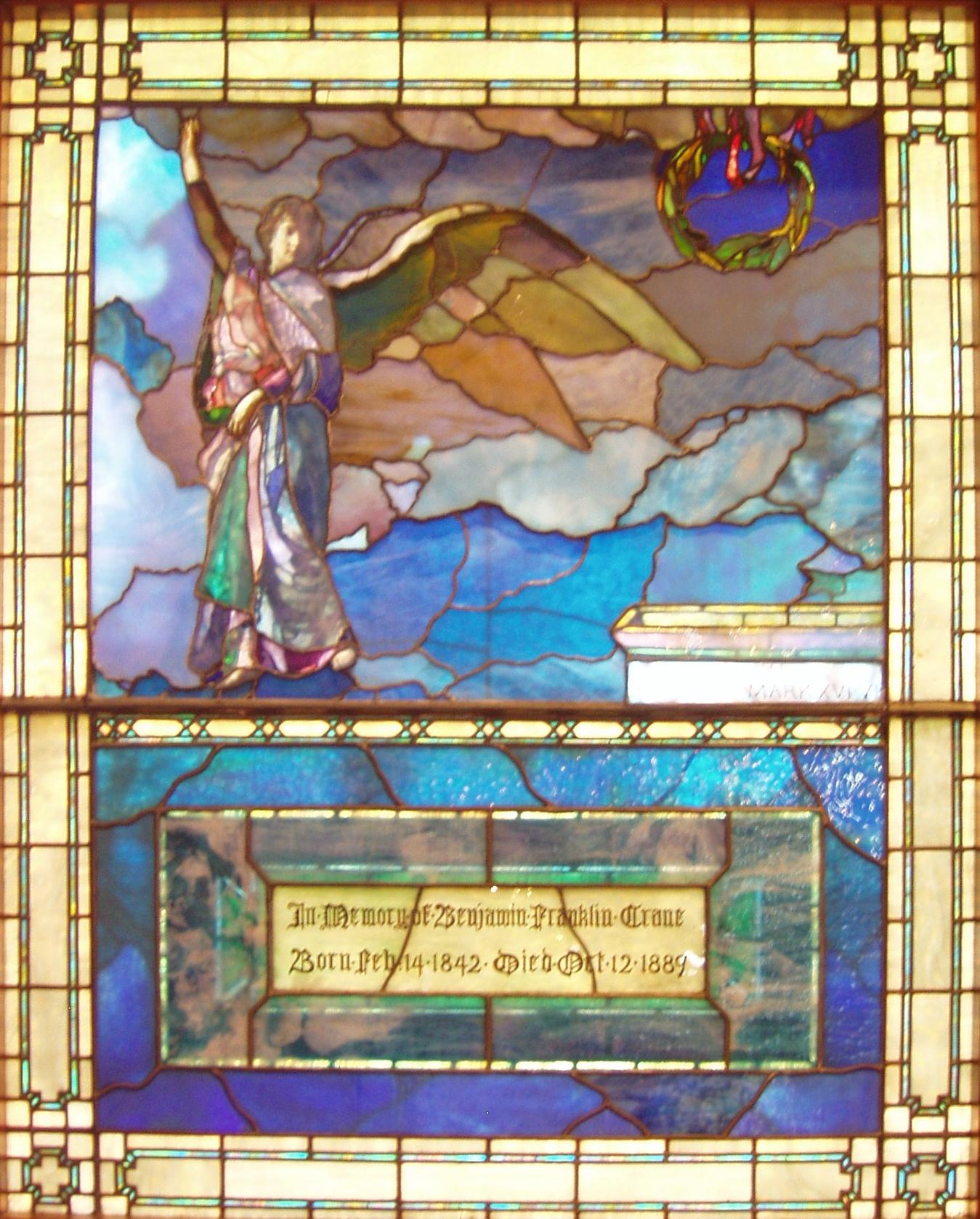 "Angel at the Tomb" by noted American artist John LaFarge, in the Thomas Crane Public Library (Quincy, Massachusetts). Photograph taken by me, August 2005.